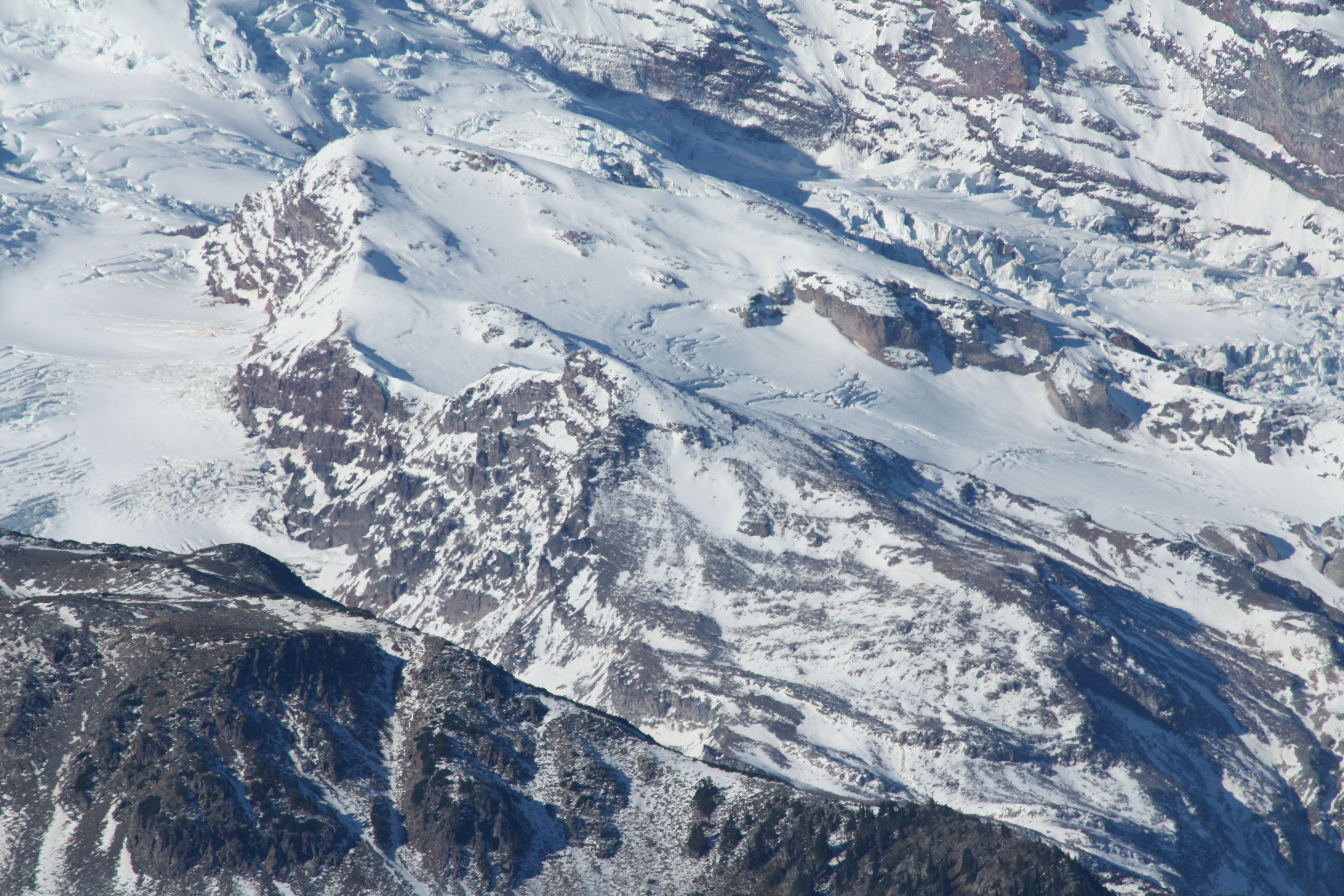 Steamboat Prow (9680 feet, upper left) with the small Inter Glacier on its northeast face. Steamboat Prow divides Emmons Glacier (left) from Winthrop Glacier (behind). A portion of Goat Island Mountain is visible in the middle distance below.